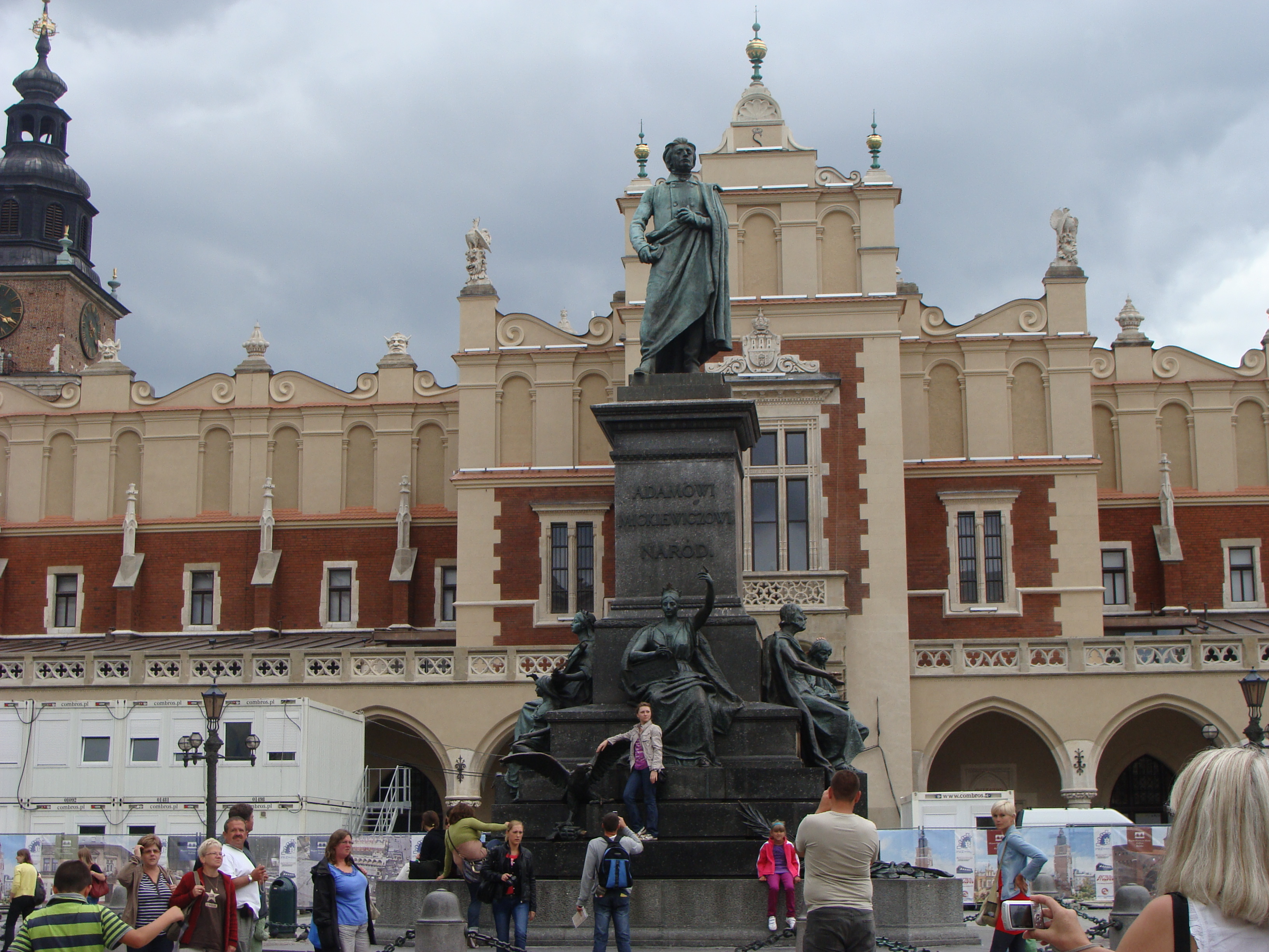 Adam Mickiewicz Monument in Kraków